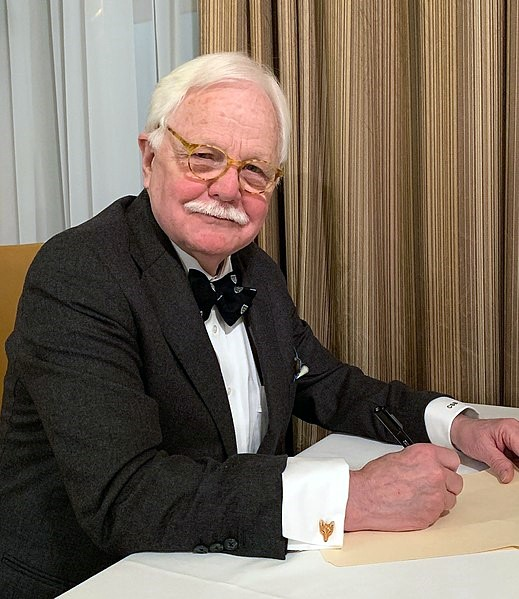 Charles S. Bryan, 49th annual meeting of the American Osler Society, Montreal, Canada